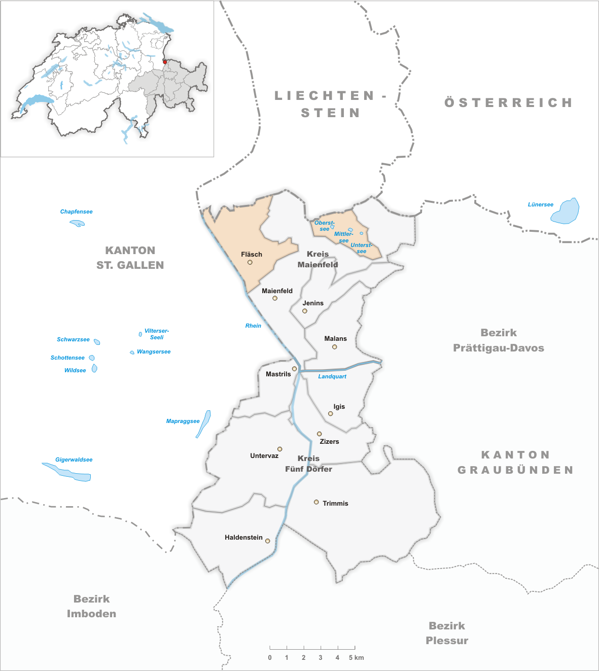 Municipality Fläsch